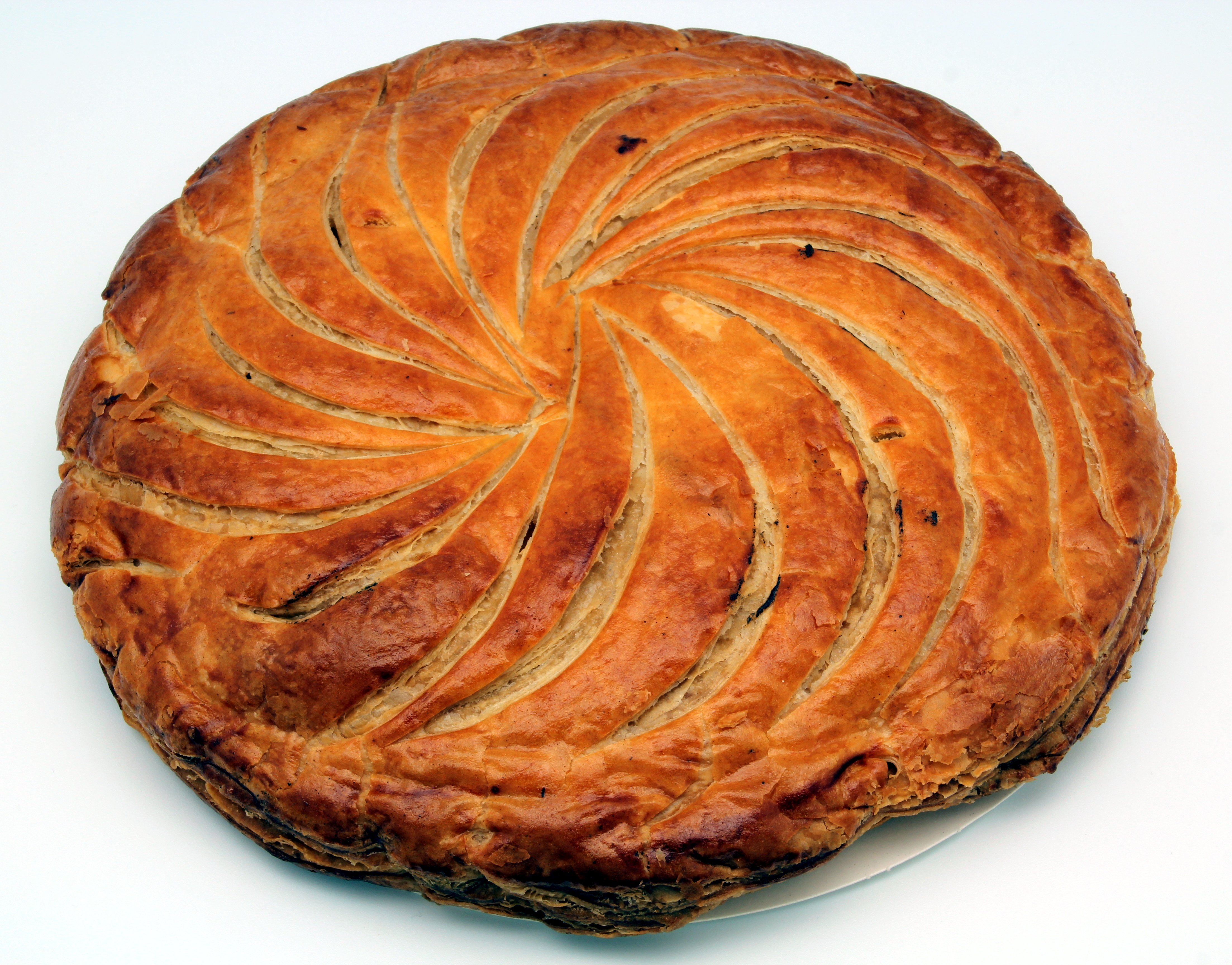 King cake.